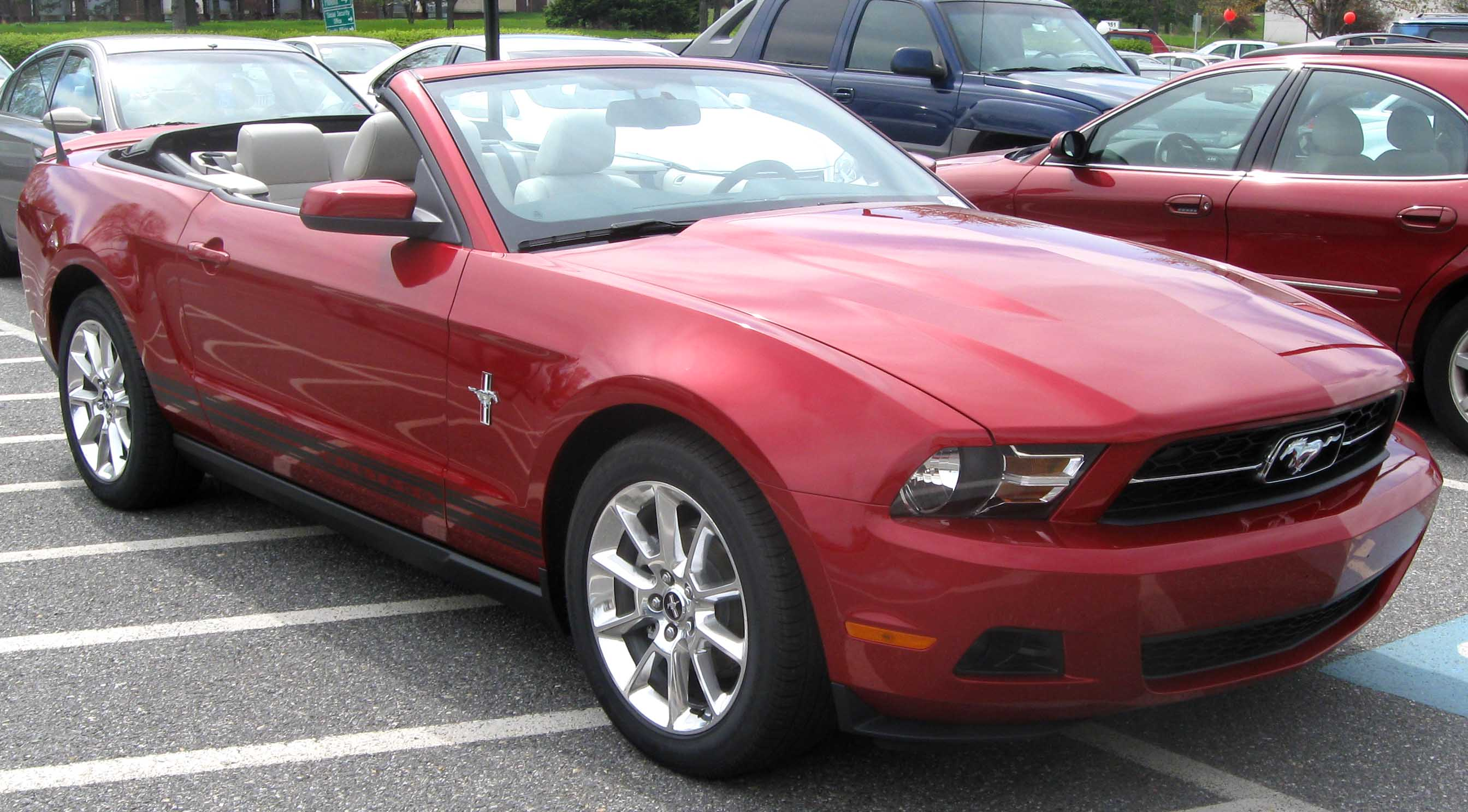 2010 Ford Mustang photographed in Columbia, Maryland, USA.